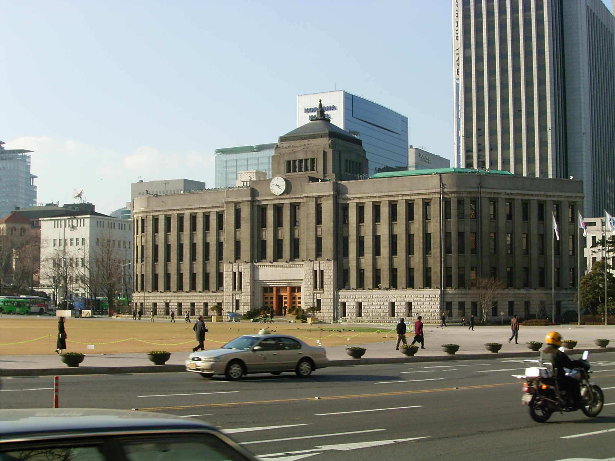 Designed by Nagasaburo Iwai, the Keijō fuchō sha (京城府庁舎) was built in 1925 is an example of Imperial Crown Style architecture.